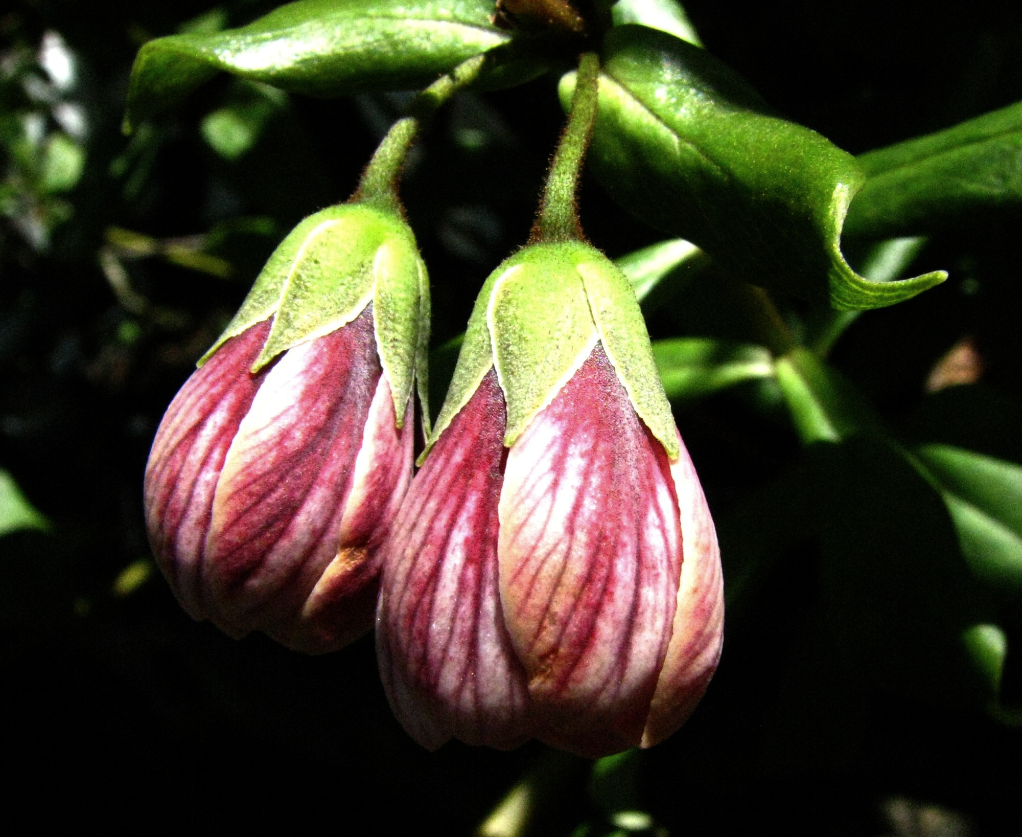 Hawaiian names: Kolekole lehua, Kolokolo kuahiwi, Kolokolo lehua, Puahekili Common names: Hillebrand's loosestrife, Hillebrand's lysimachia Primulaceae Endemic to the Hawaiian Islands Kauaʻi (Cultivated)